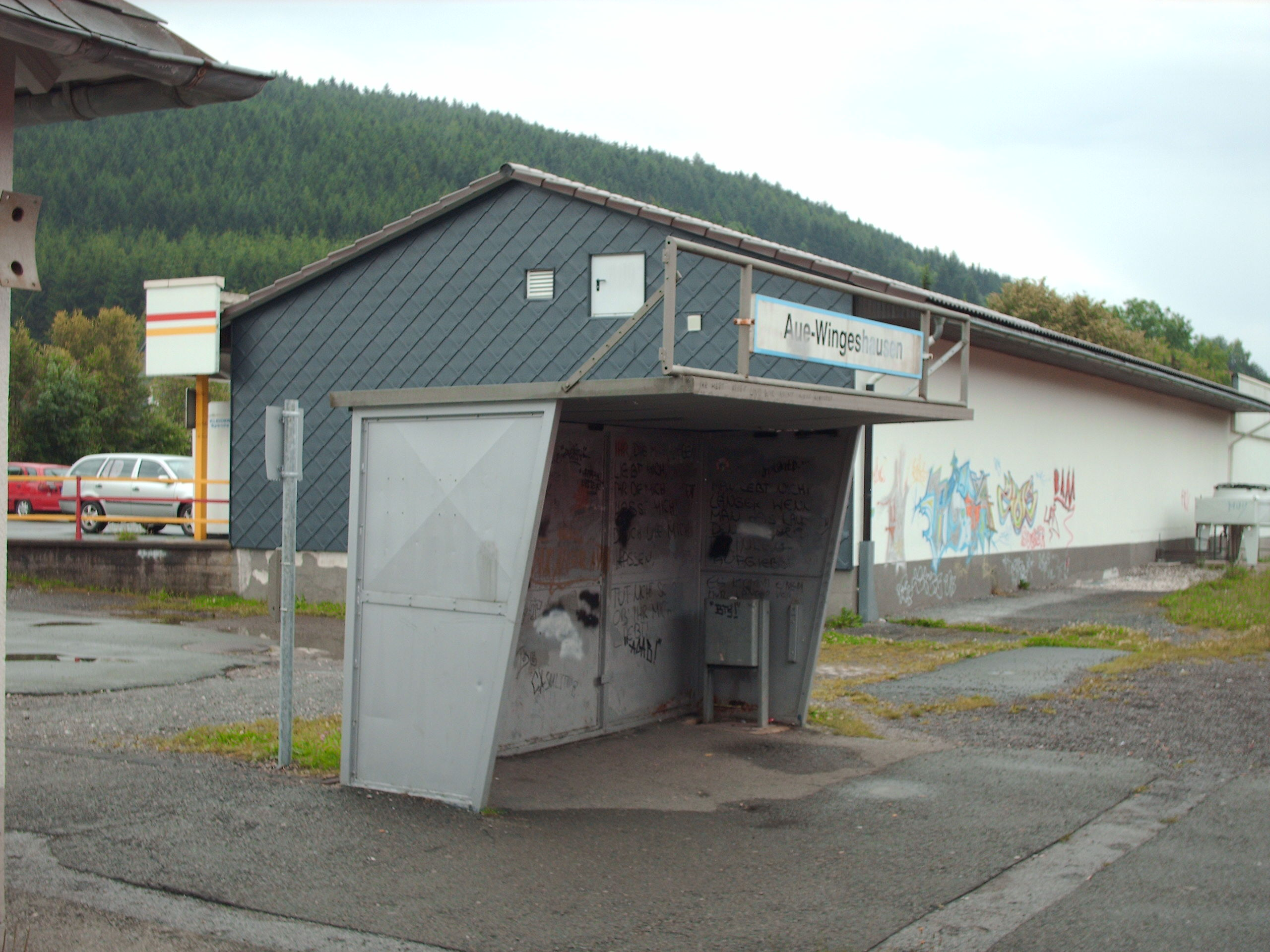 Aue-Wingeshausen station, Bad Berleburg, Germany check usage